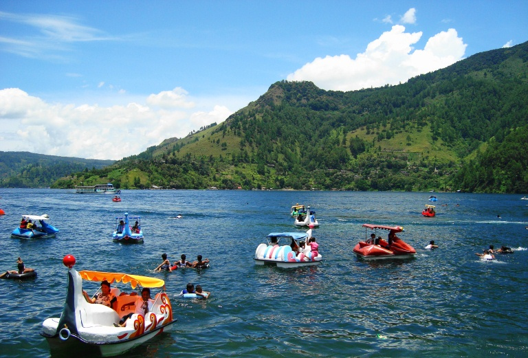 The beauty of the natural scenery of Lake Toba, North Sumatra.